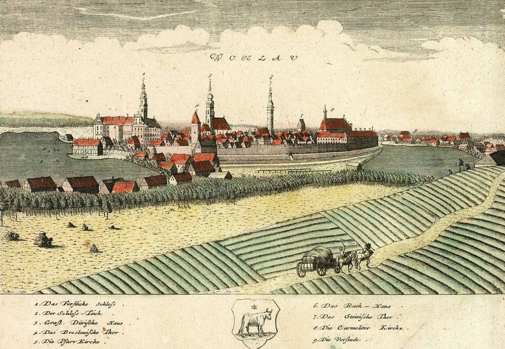 Wołów is a town in Lower Silesian Voivodeship in south-western Poland.